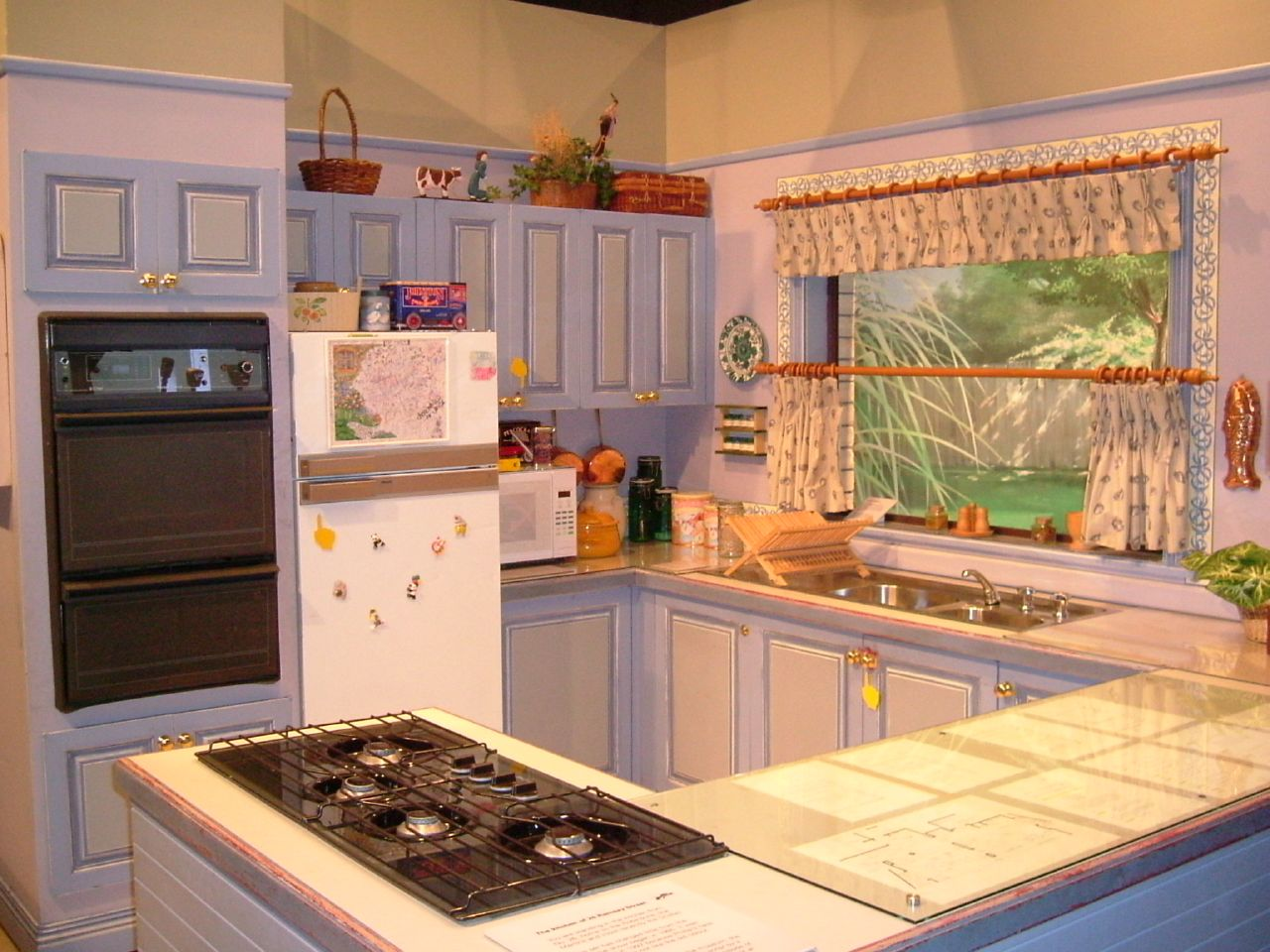 The Neighbours Set